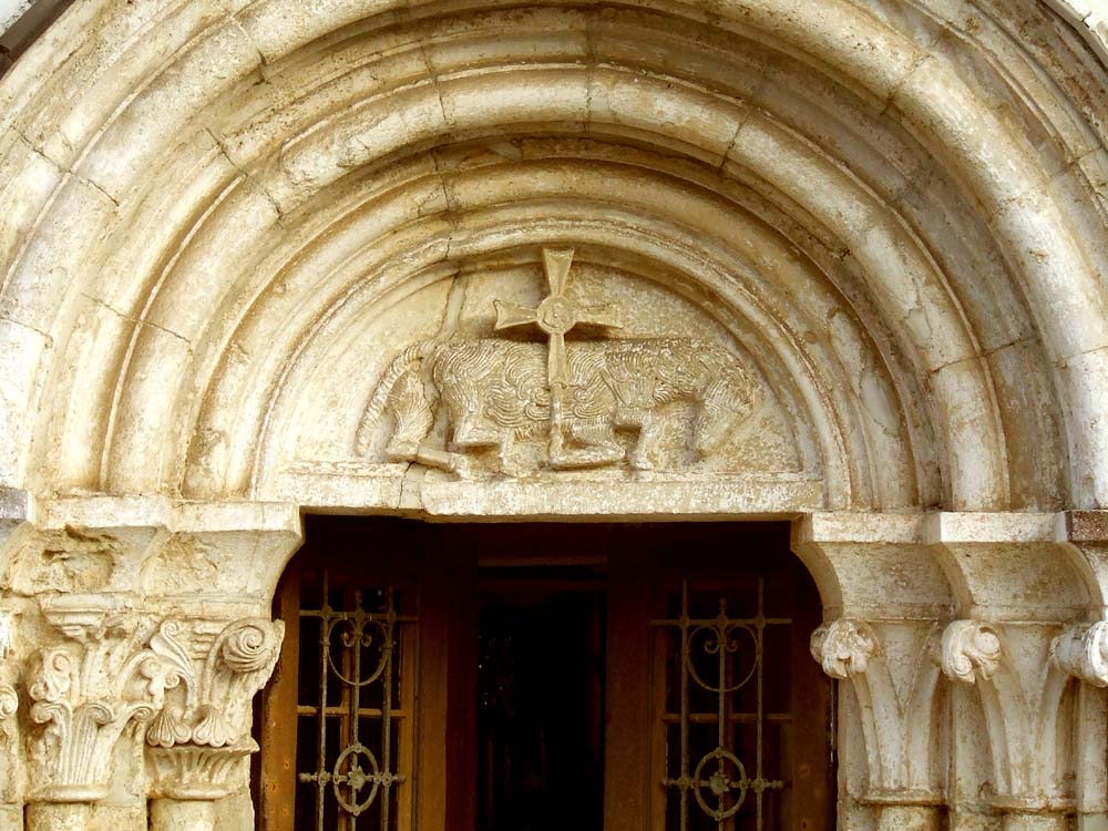 roman arch portal with the lamb eraring the cross